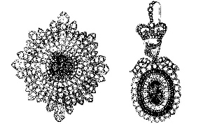 Image of the stolen Irish Crown Jewels, from Hue and Cry, which was published by the Royal Irish Constabulary and the Dublin Metropolitican Police twice a week. The image was published in 1907.